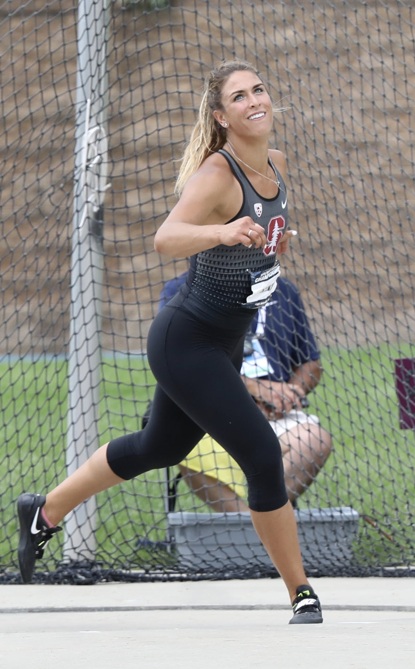 2018 USA Outdoor Track and Field Championships